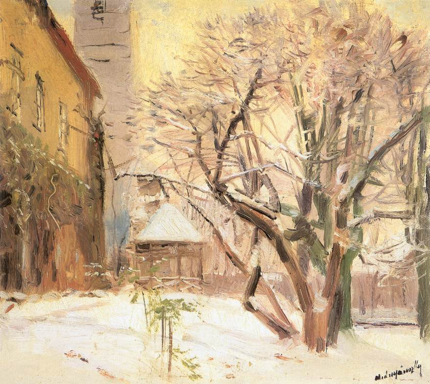 Courtyard in Winter